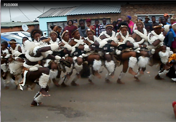 Traditional Zulu dance This is an image of music and dance from South Africa